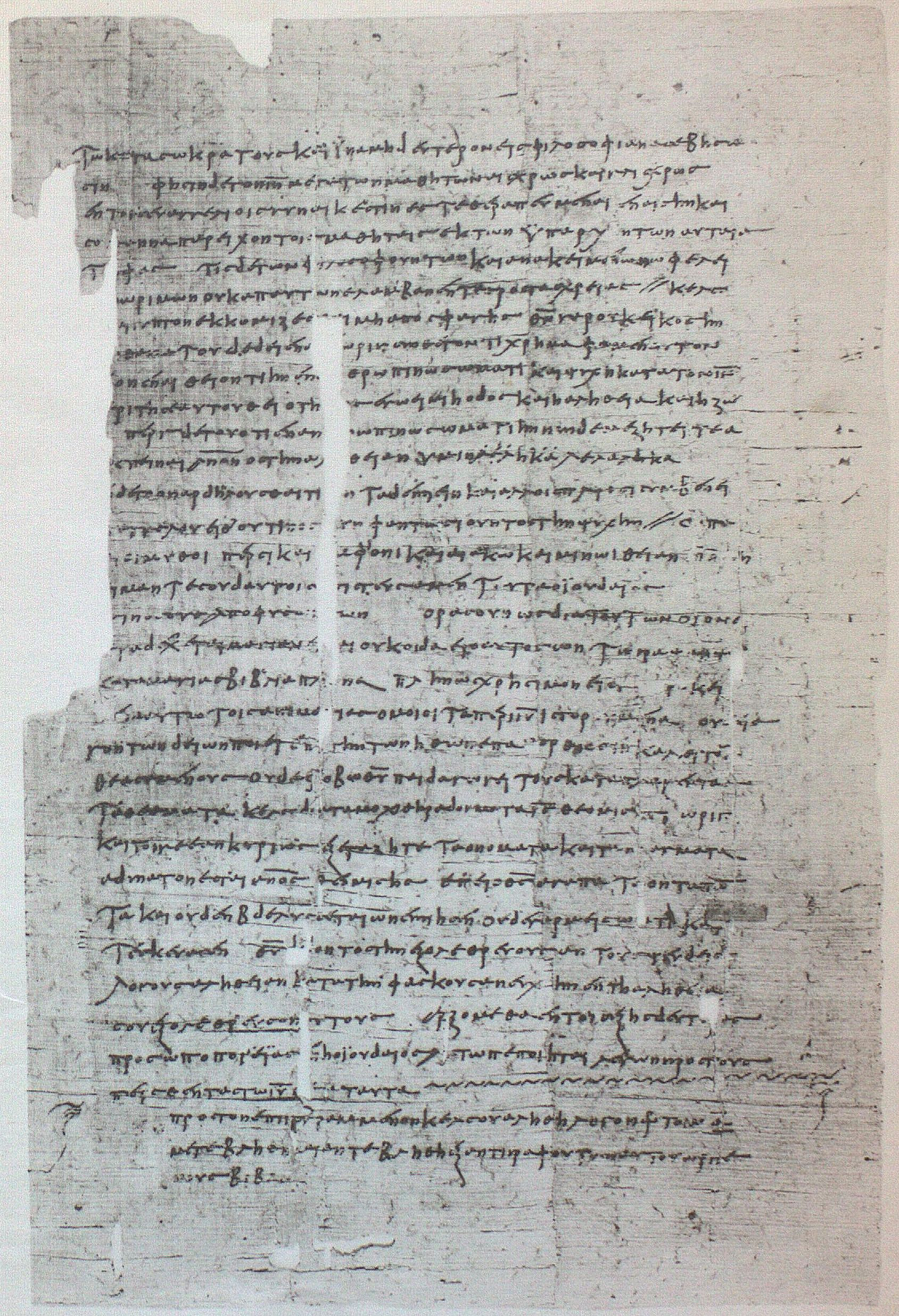 Page 29 of papyrus Cairo, Egyptian Museum, JE 88747, containing the treatise Contra Celsum. This papyrus is the earliest text witness of the treatise.